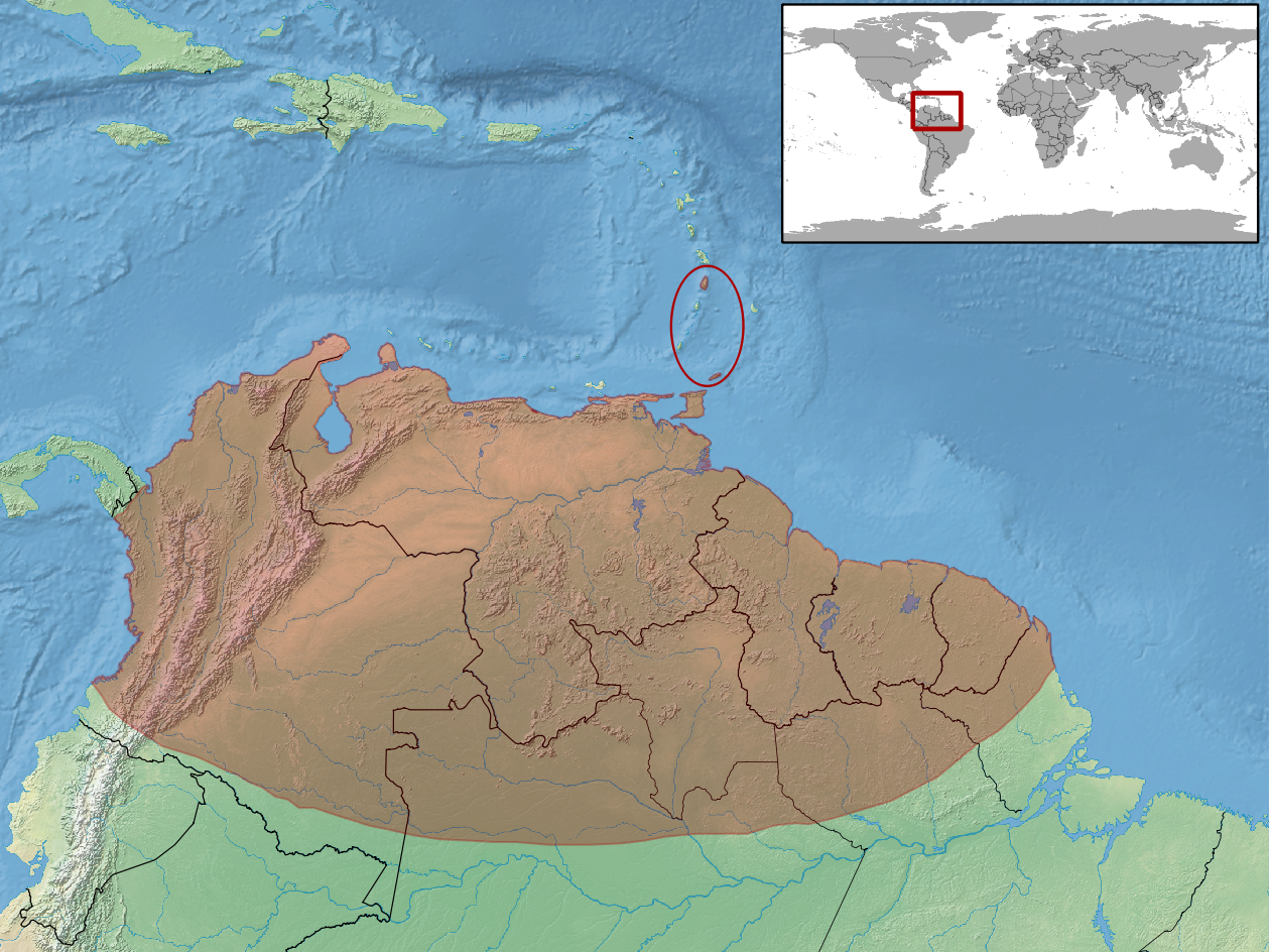 geographic distribution of Hemidactylus palaichthus (Native: Brazil; Colombia; Guyana; Saint Lucia; Suriname; Trinidad and Tobago; Venezuela)